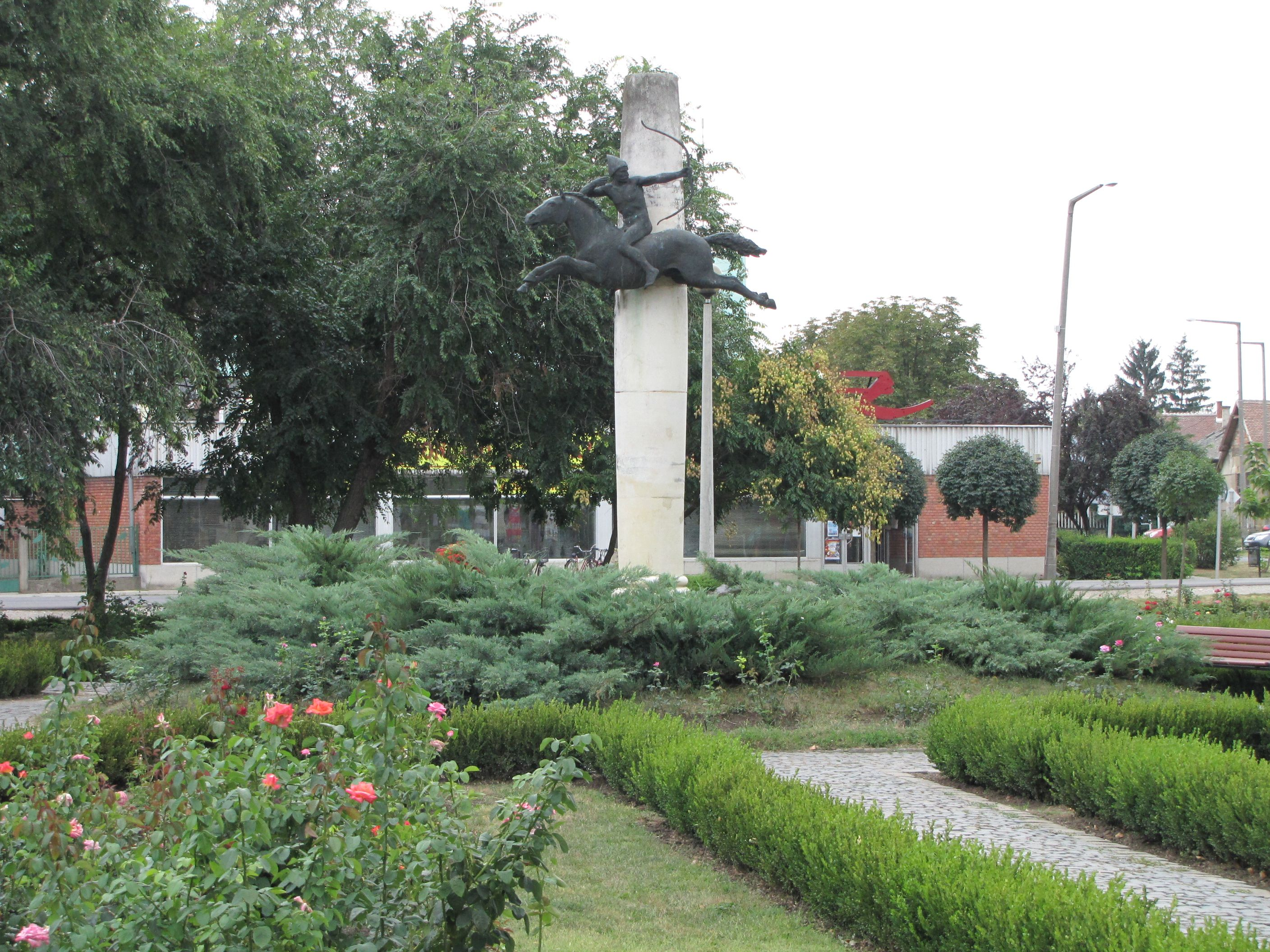 Equestrian statue of a Cuman warrior, Kunhegyes, Hungary